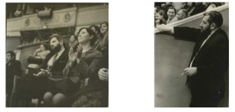 Aronov v Cirke na Cvetnom Bulvare